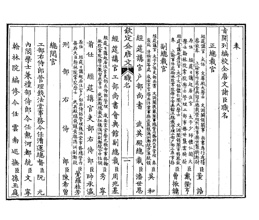 Qin ding quan Tang wen, official title of editors. Mar, 1814